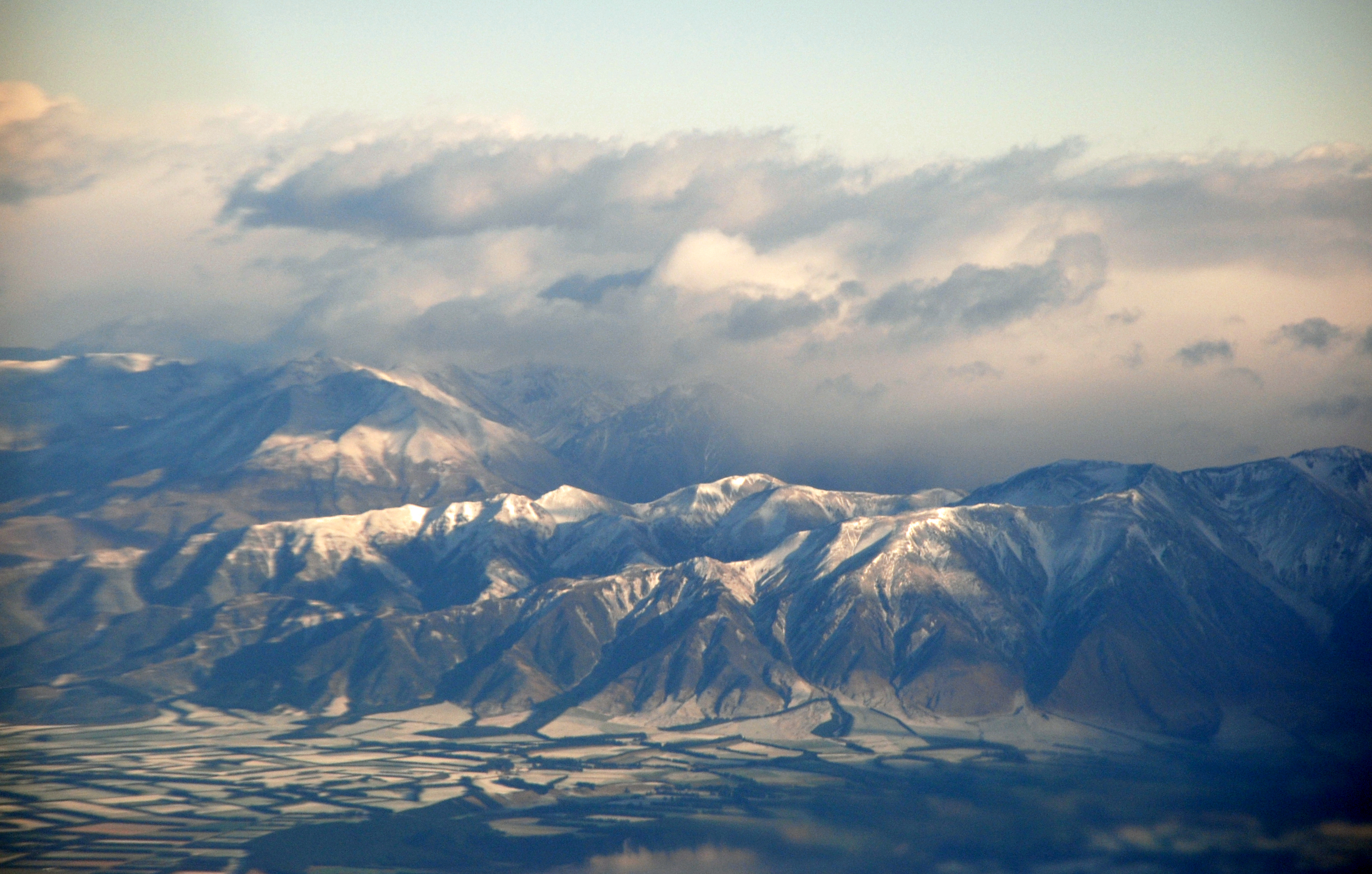 Mount Hutt. En route Wellington to Timaru.